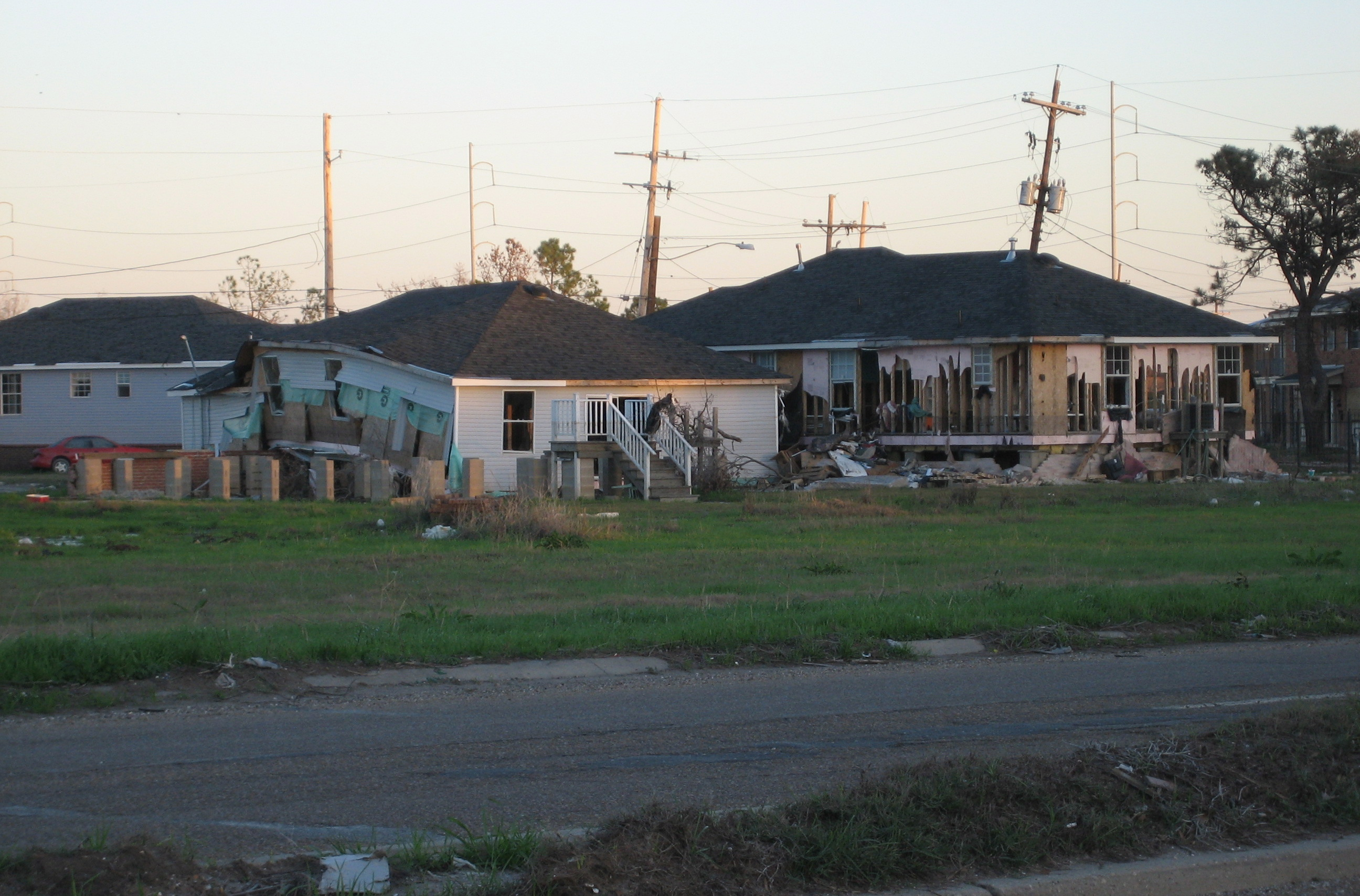 New Orleans after Hurricane Katrina: Damaged houses in formerly flooded out neighborhood of Eastern New Orleans. Photo by Infrogmation, January 2006